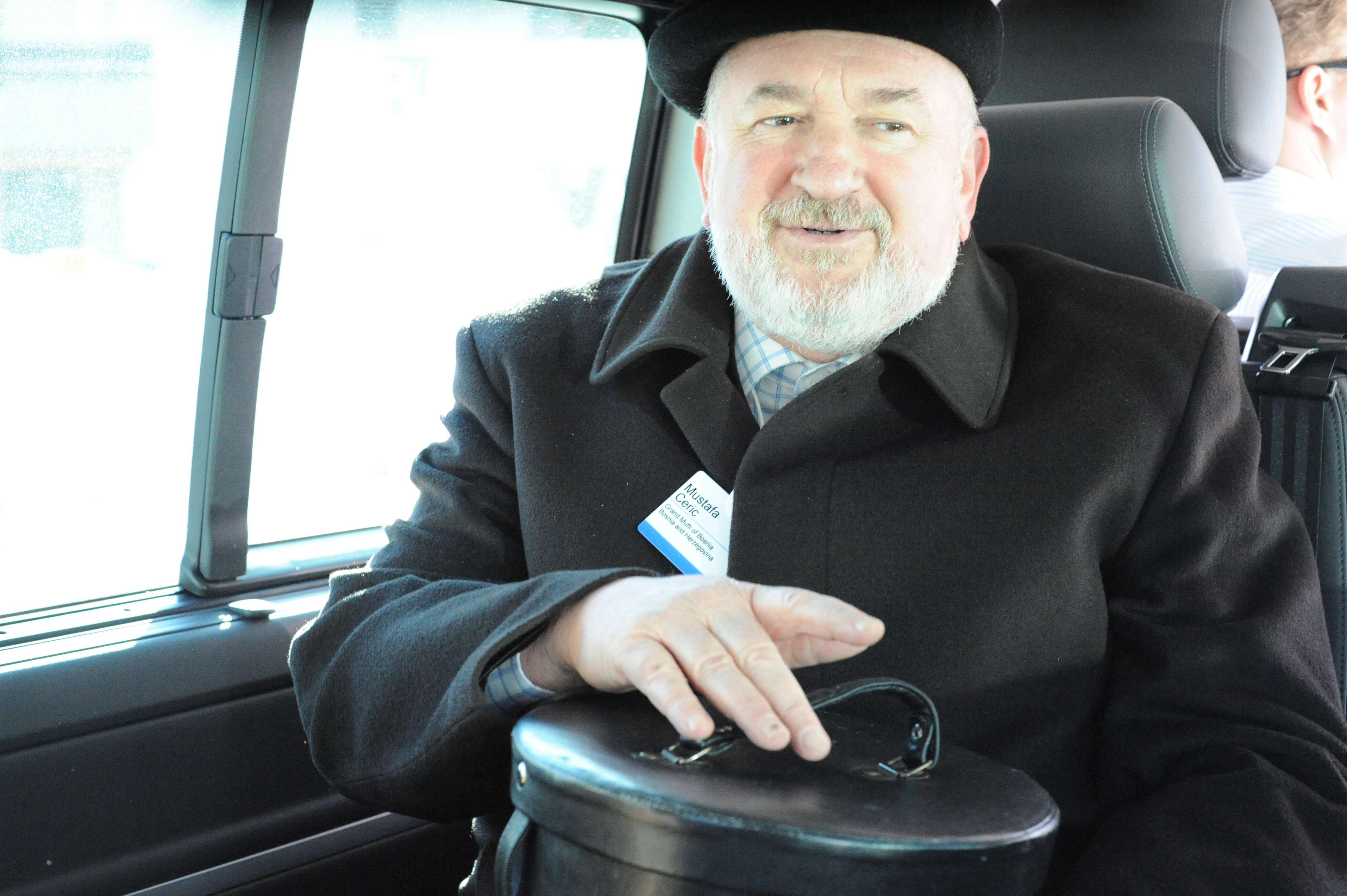 Mustafa Ef. Ceric at the 2008 World Economic Forum.Mustafa Ceric, Grand Mufti of Bosnia (top religious leader)